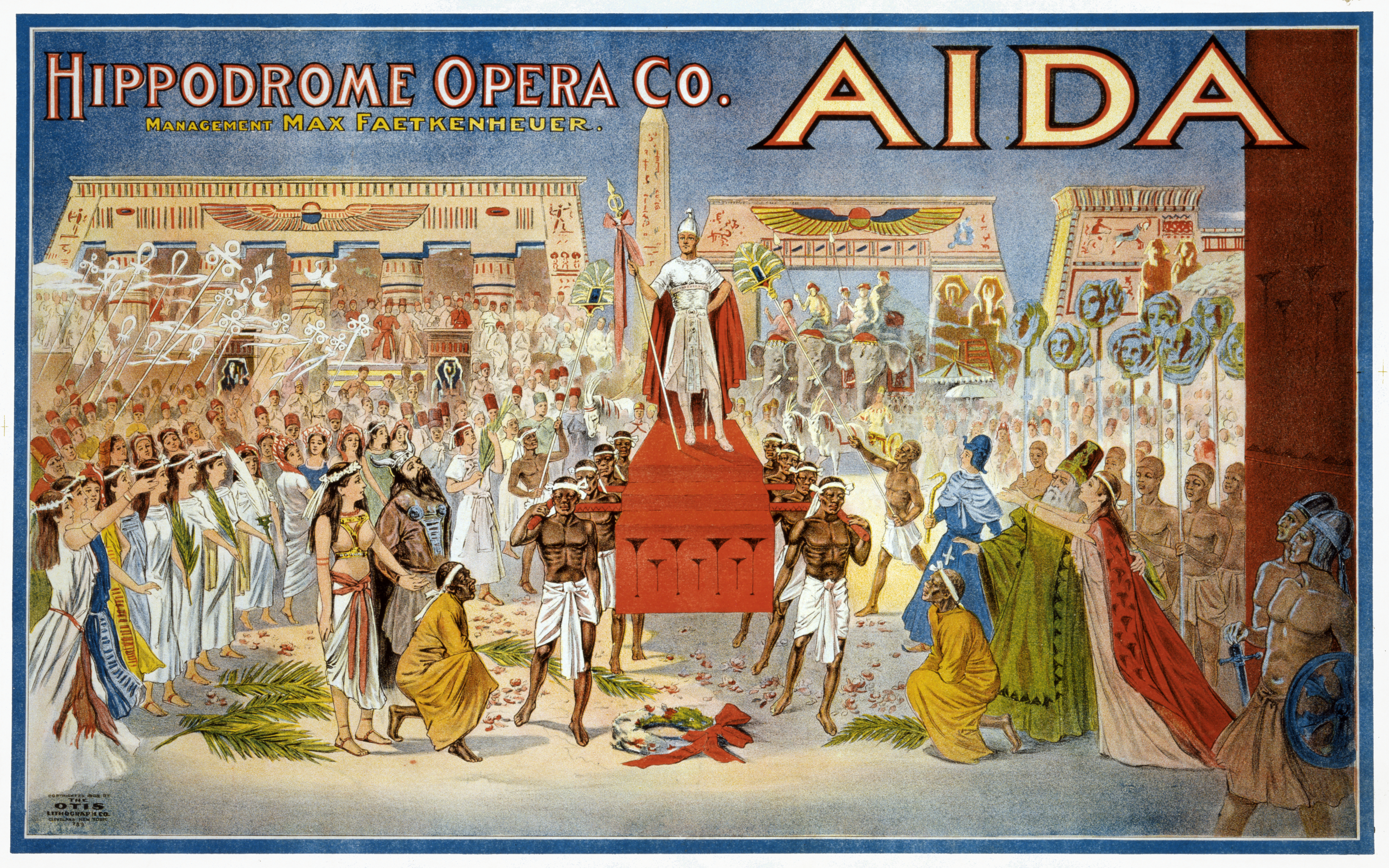 1908 poster for Giuseppe Verdi's Aida, performed by the Hippodrome Opera Company of Cleveland, Ohio.[1]